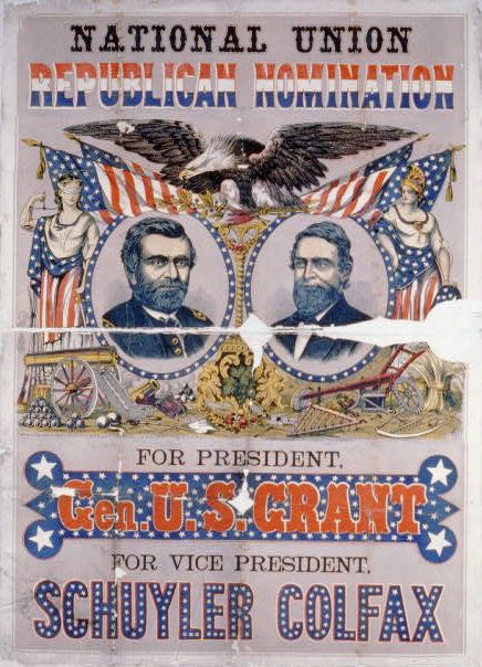 National Union Republican nomination. For president Gen. U.S. Grant. For vice president, Schuyler Colfax.